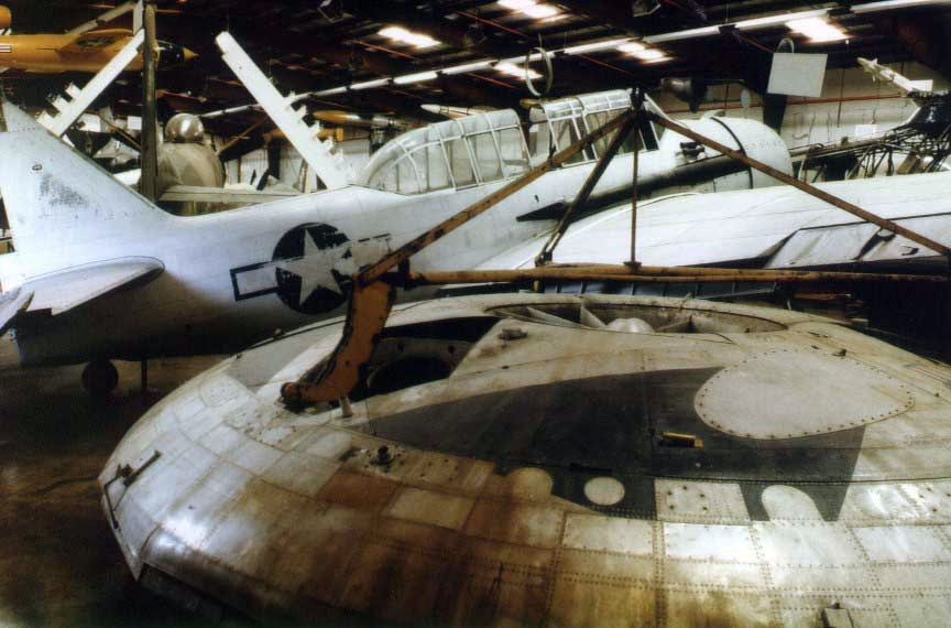 Avro Canada VZ-9 Avrocar in storage at the Smithsonian Institution's Paul E. Garber Storage Facility in 1984. Note O-47, A-1H Skyraider, and JB-2 among artifacts in background.